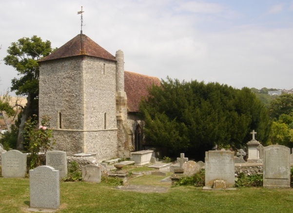 View of St Wulfran's Church, Ovingdean, City of Brighton and Hove, England, from the southwest. West tower, large yew tree and part of the churchyard can be seen.